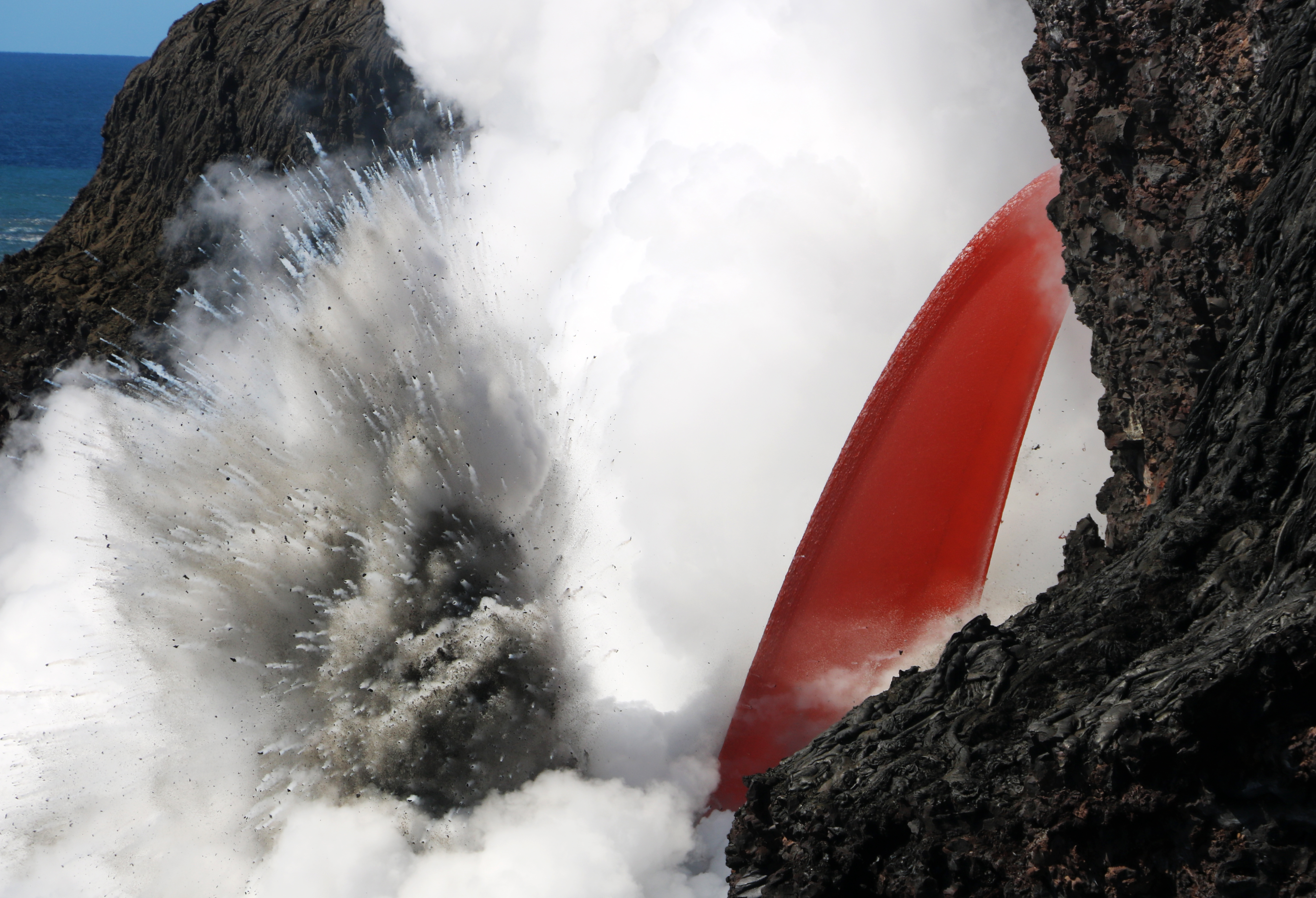 January 28, 2017 (Puʻu ʻŌʻō, Kīlauea): Open lava stream continues at ocean entry. An open lava stream continues to pour out of the lava tube, perched high on the sea cliff, and into the ocean. The stream was remarkably steady today, but produced pulsating littoral explosions that threw spatter onto the sea cliff. (